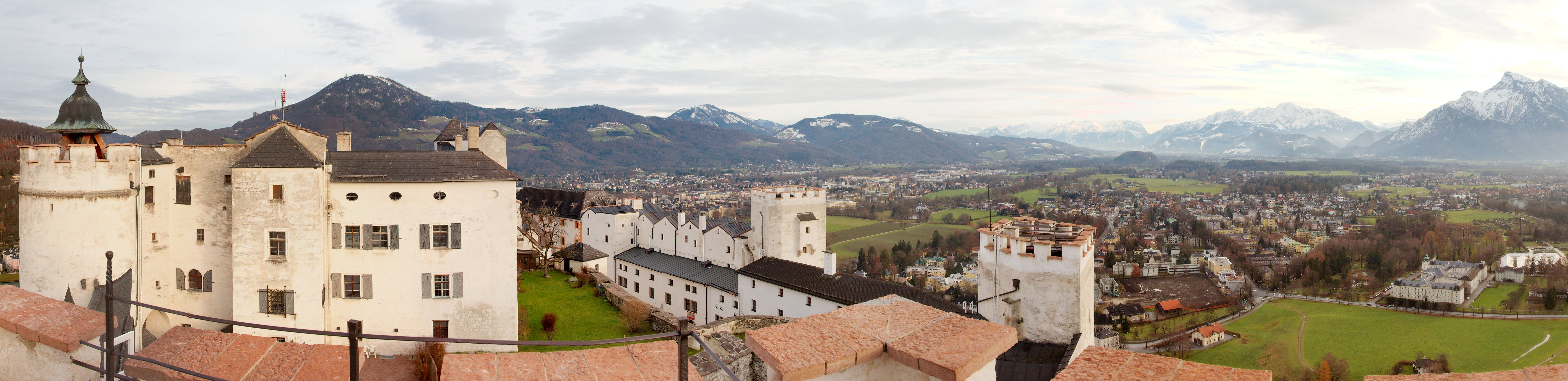 180° panoramic view from Reckturm